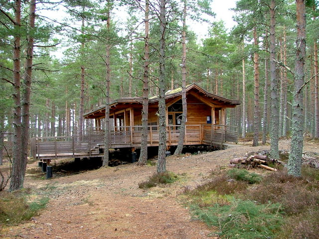 Log cabin in School Wood School Wood on the outskirts of Farr village is owned and managed by Strathnairn community and is a wonderful facility with woodland walks, a picnic area and a log cabin that appears to be used for various community projects.